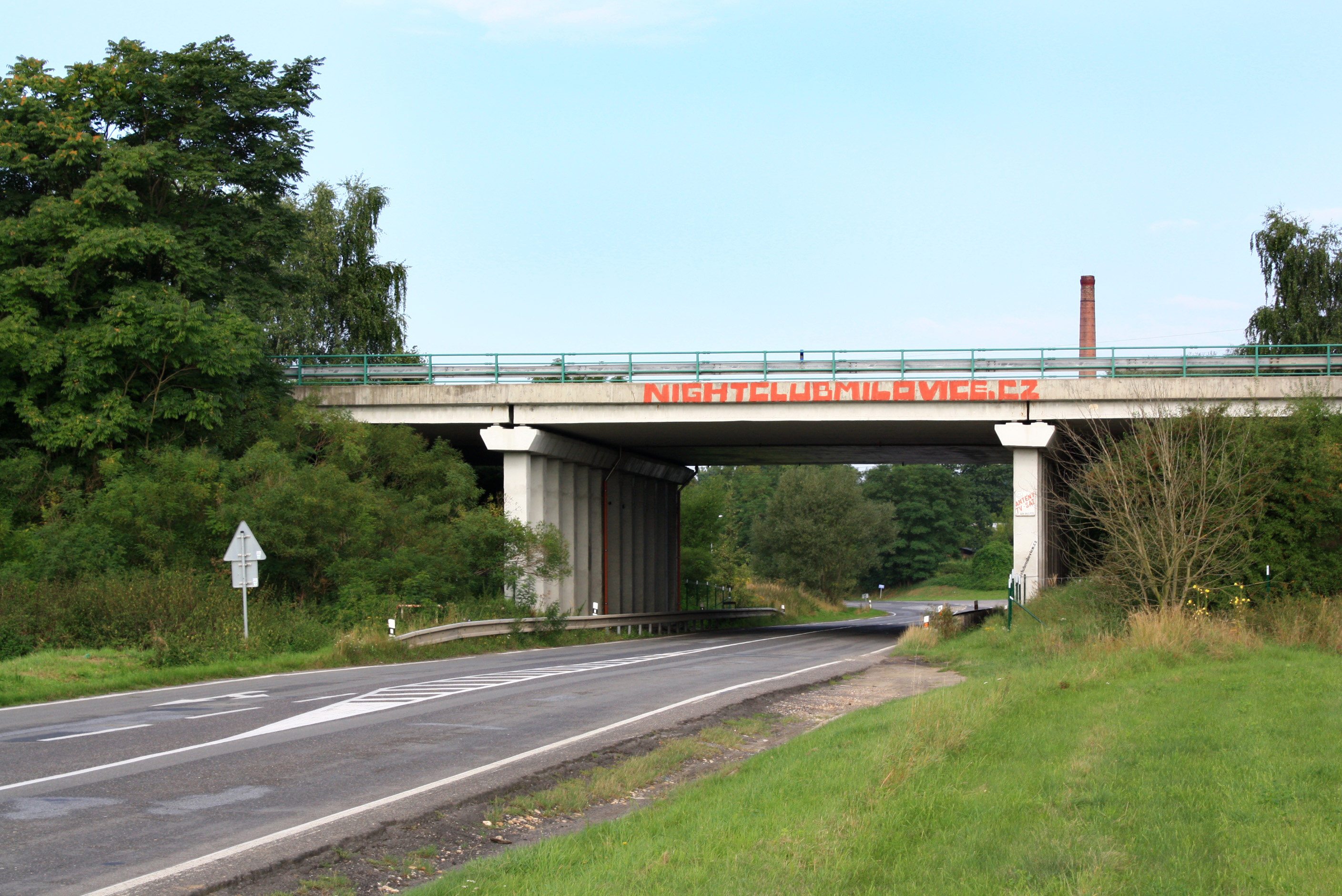 Underpass under road No 10 in Brodce, Czech Republic